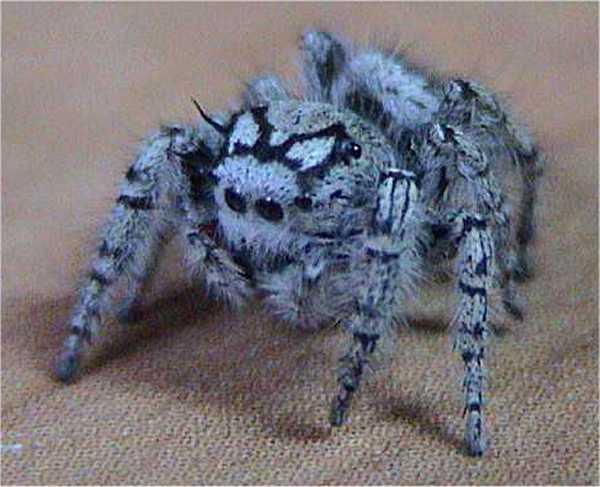 female Phidippus mystaceus from Austin, Texas